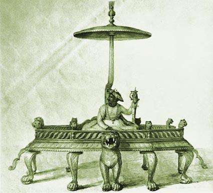 From the Clive Museum at Powis.